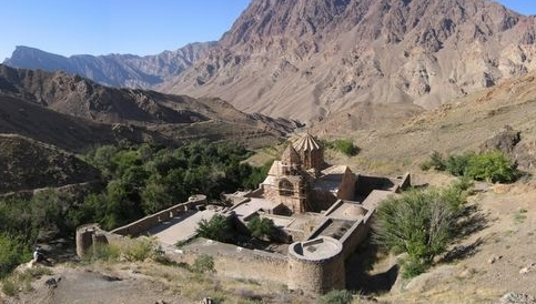 St Stephanus Church, Iran.